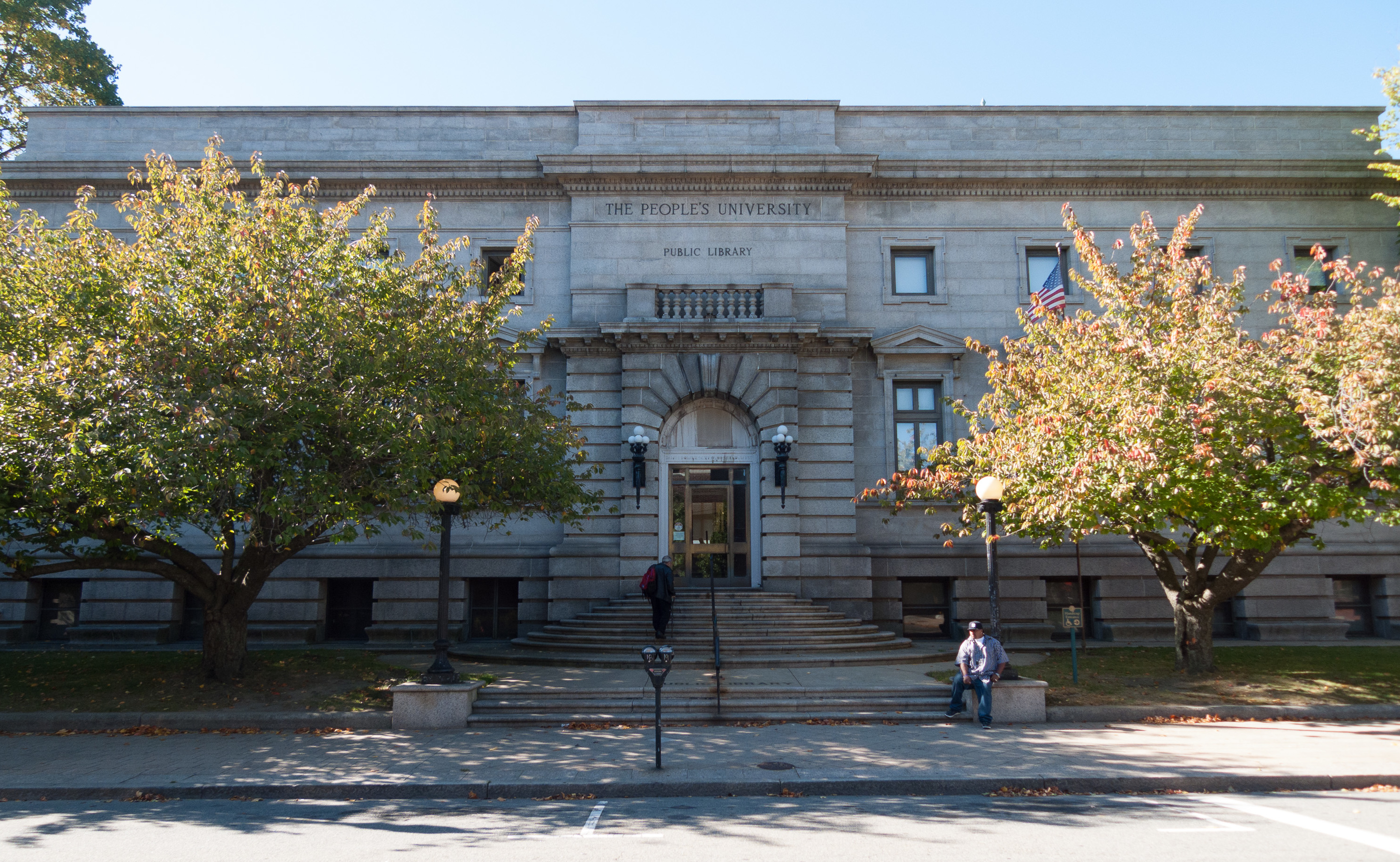 Fall River Public Library, Massachusetts.